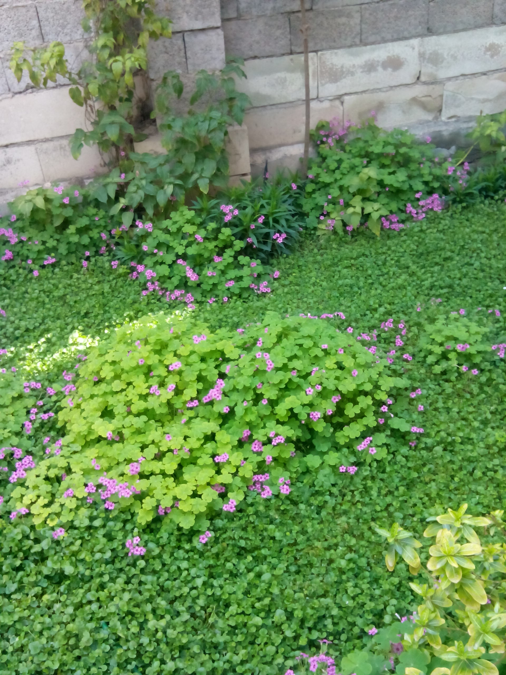 flowers in the garden, in Baghdad